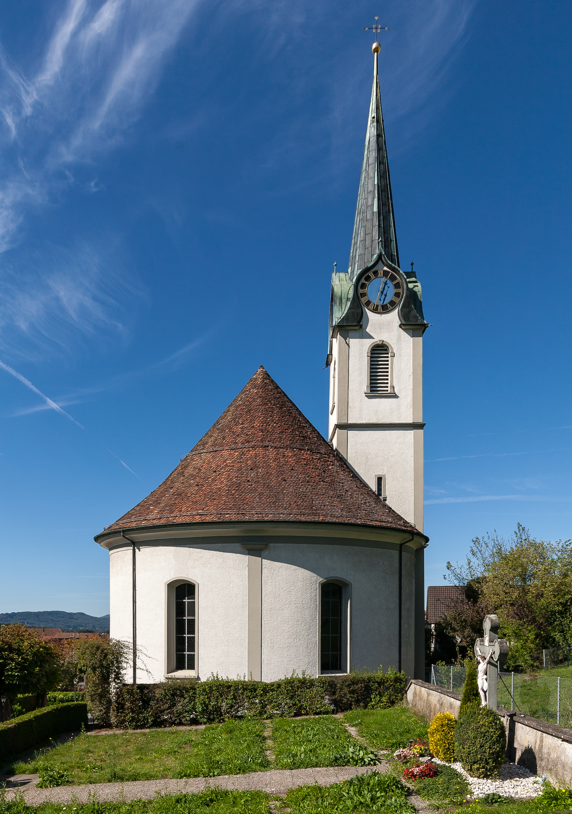 Roman-Catholic church St. Agatha in Fislisbach, Canton of Aargau, Switzerland